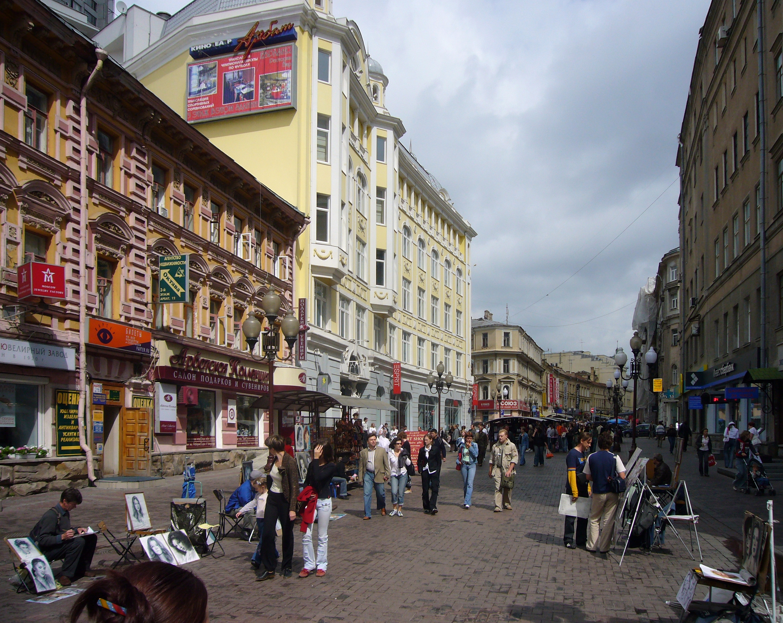 View of Arbat Street in Moscow, Russia